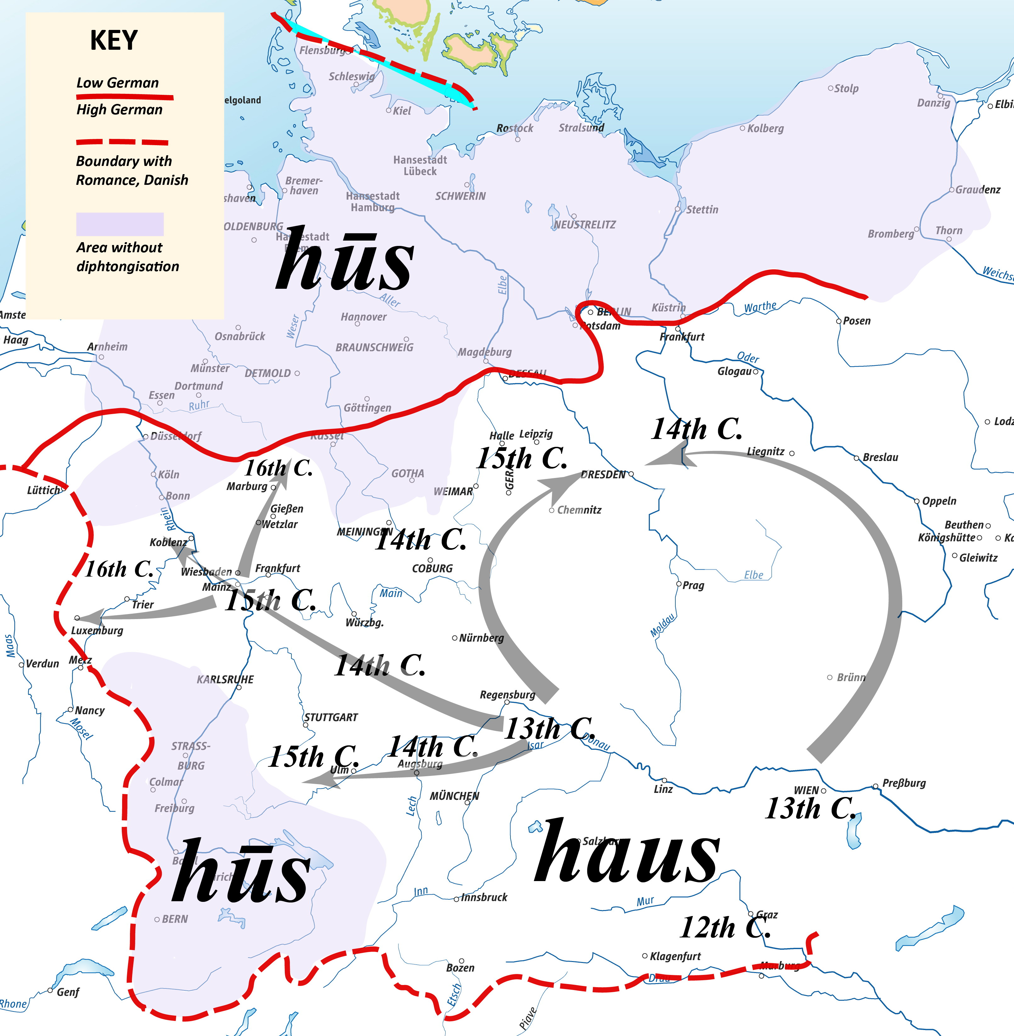 The diphthongisation of long vowels in Early New High German, distribution and chronology. This map is based on Map 35 in Theodor Frings, Grundlegung einer Geschichte der deutschen Sprache (1957), which is itself based on an original map by Kurt Wagner in Deutsche Sprachlandschaften (1927). Wagner's distribution mapping draws on the data map from the Deutscher Sprachatlas for Haus, which can be seen at Regionalsprache.de.